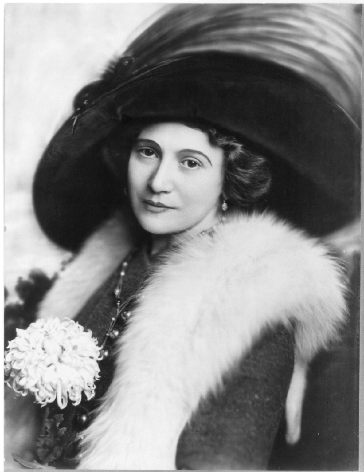 Bertha Kalich,a half-length portrait, facing left. From the US Library of Congress.